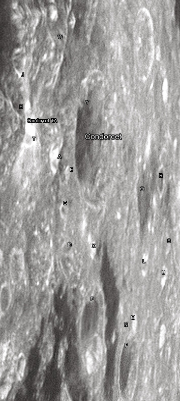 Condorcet lunar crater as seen from Earth with satellite craters labeled